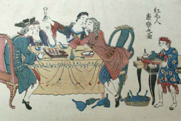 Dining at Dejima